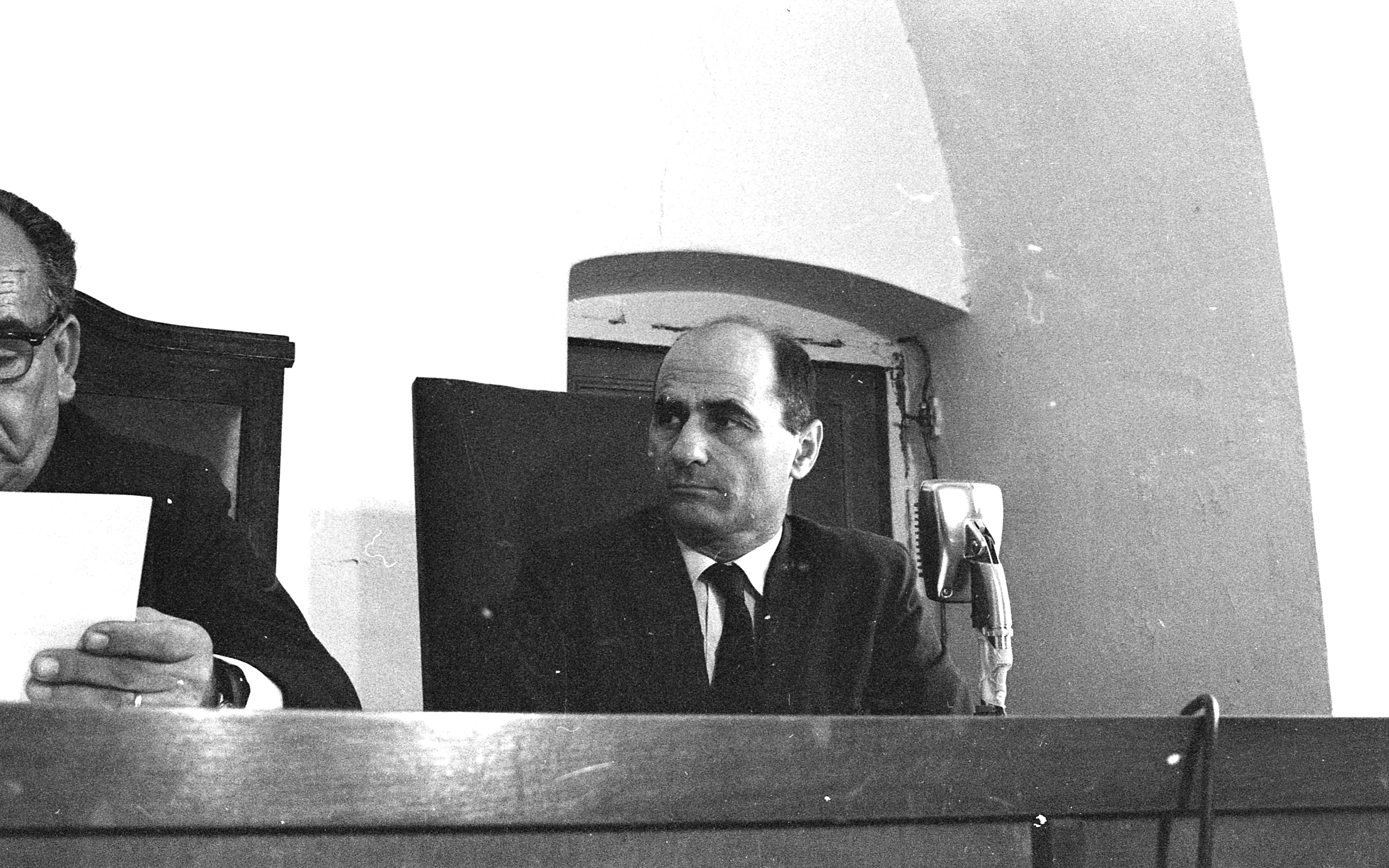 Commission of Inquiry into the Circumstances of the Fire at the Aqsa Mosque.